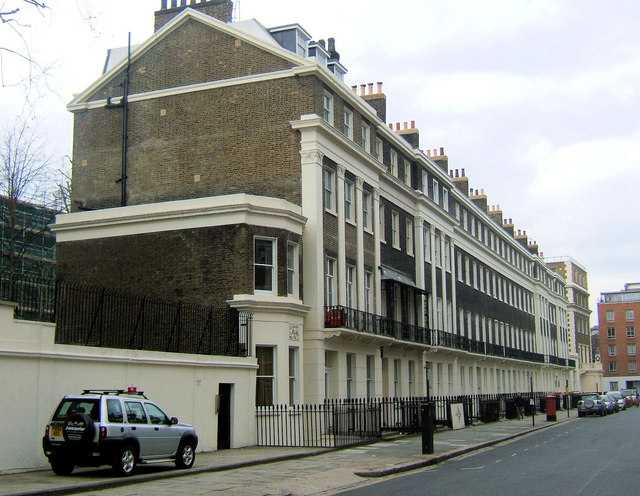 Endsleigh Street, London WC1